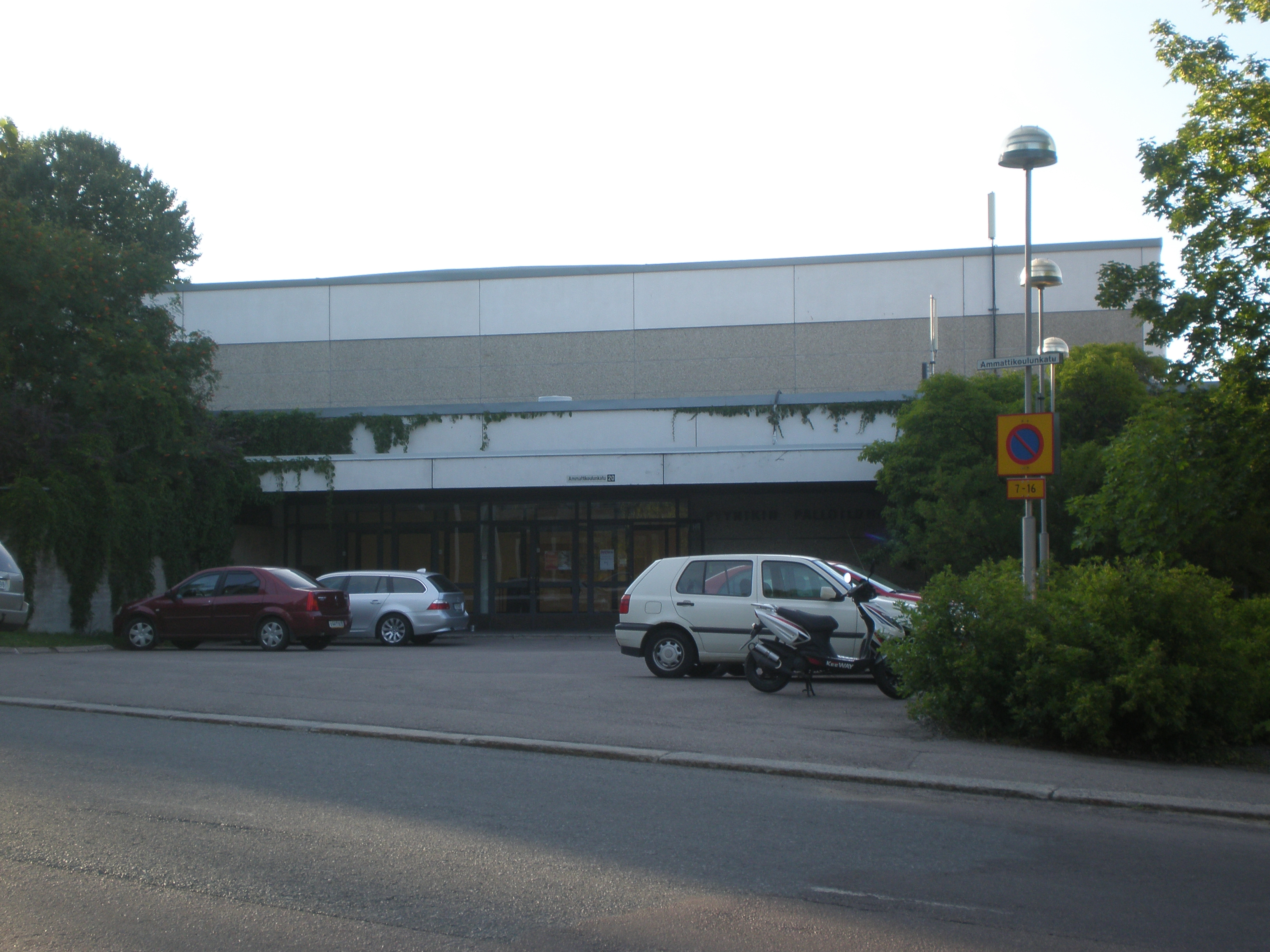 Pyynikki sports hall